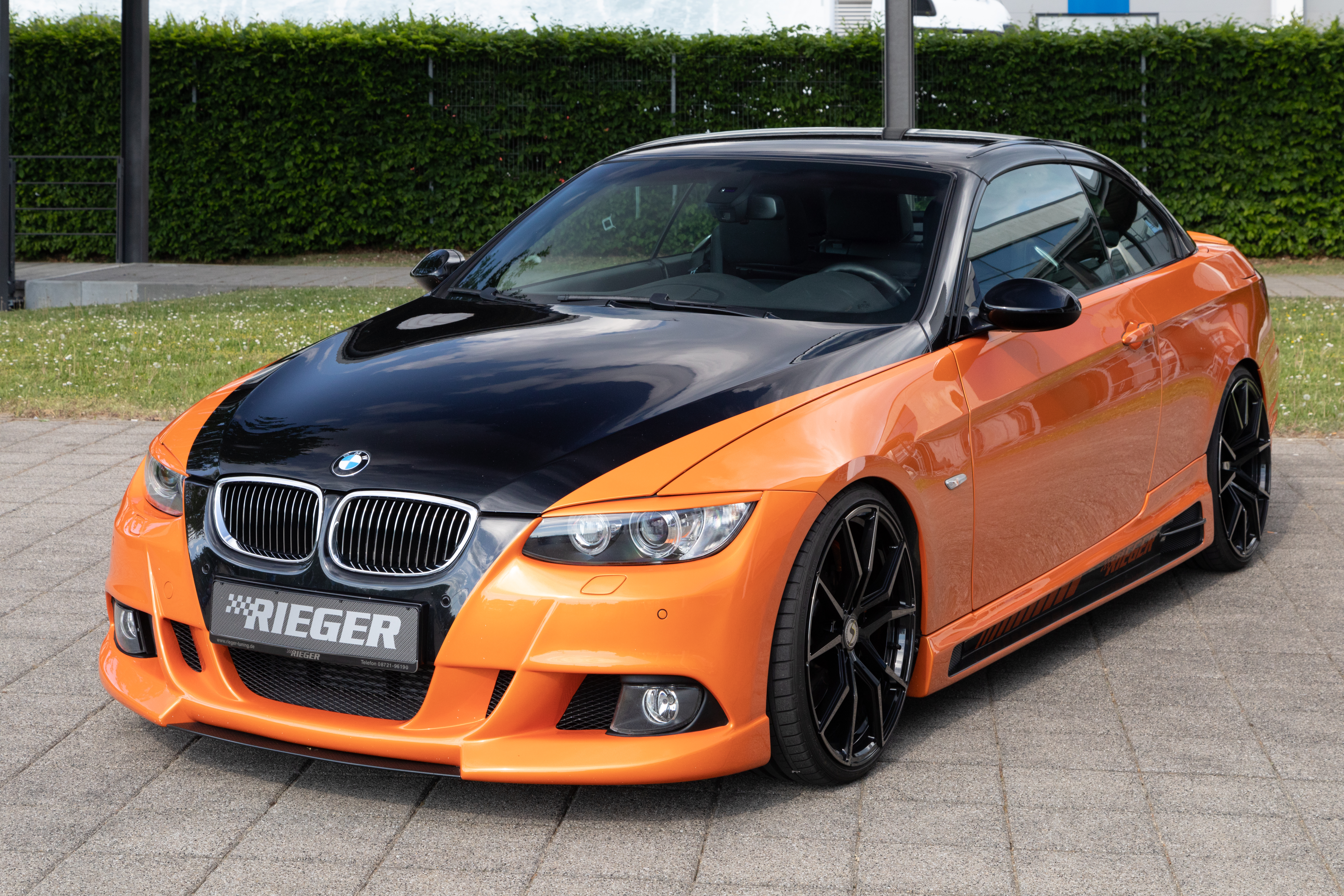 Tuning World Bodensee 2018